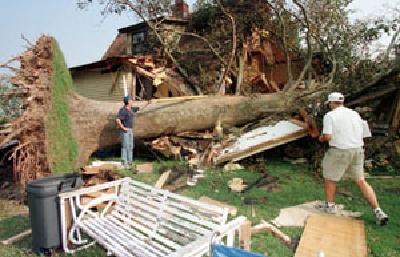 A tree in Barco, North Carolina, fell on this house as a result of high winds from Hurricane Bonnie (1998), killing a 12-year-old girl.